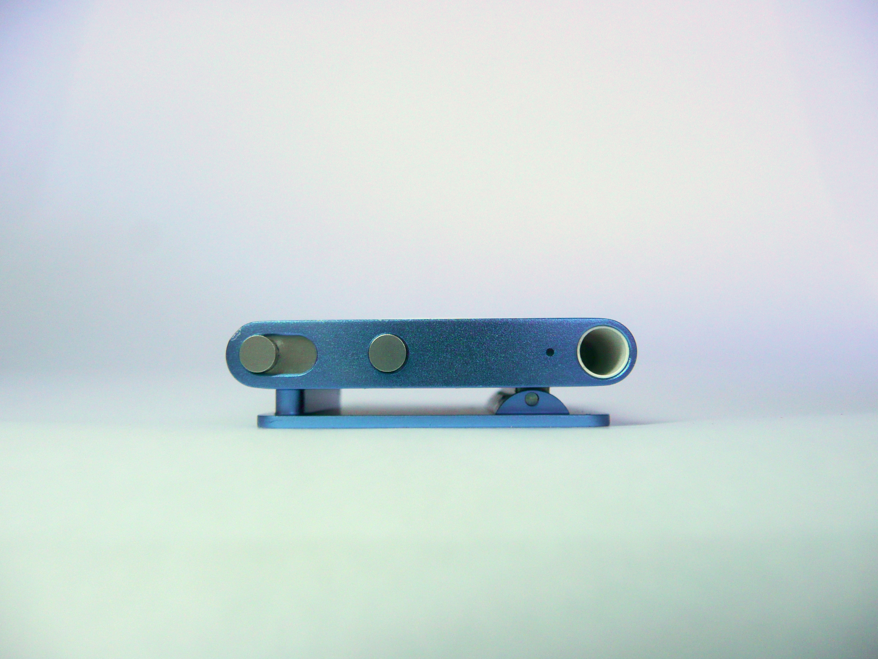 top of blue 4th generation iPod shuffle